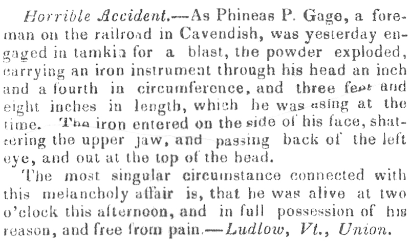 Item in Boston Post briefly relating accident which befell Phineas Gage September 13, 1848